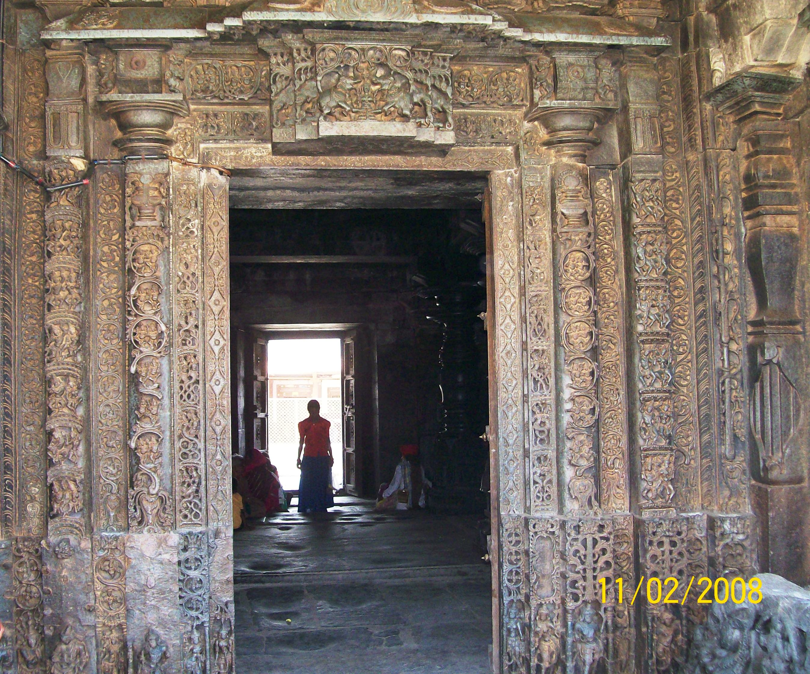 the main entrance of the temple that will lead you into the sanctum sanctorum